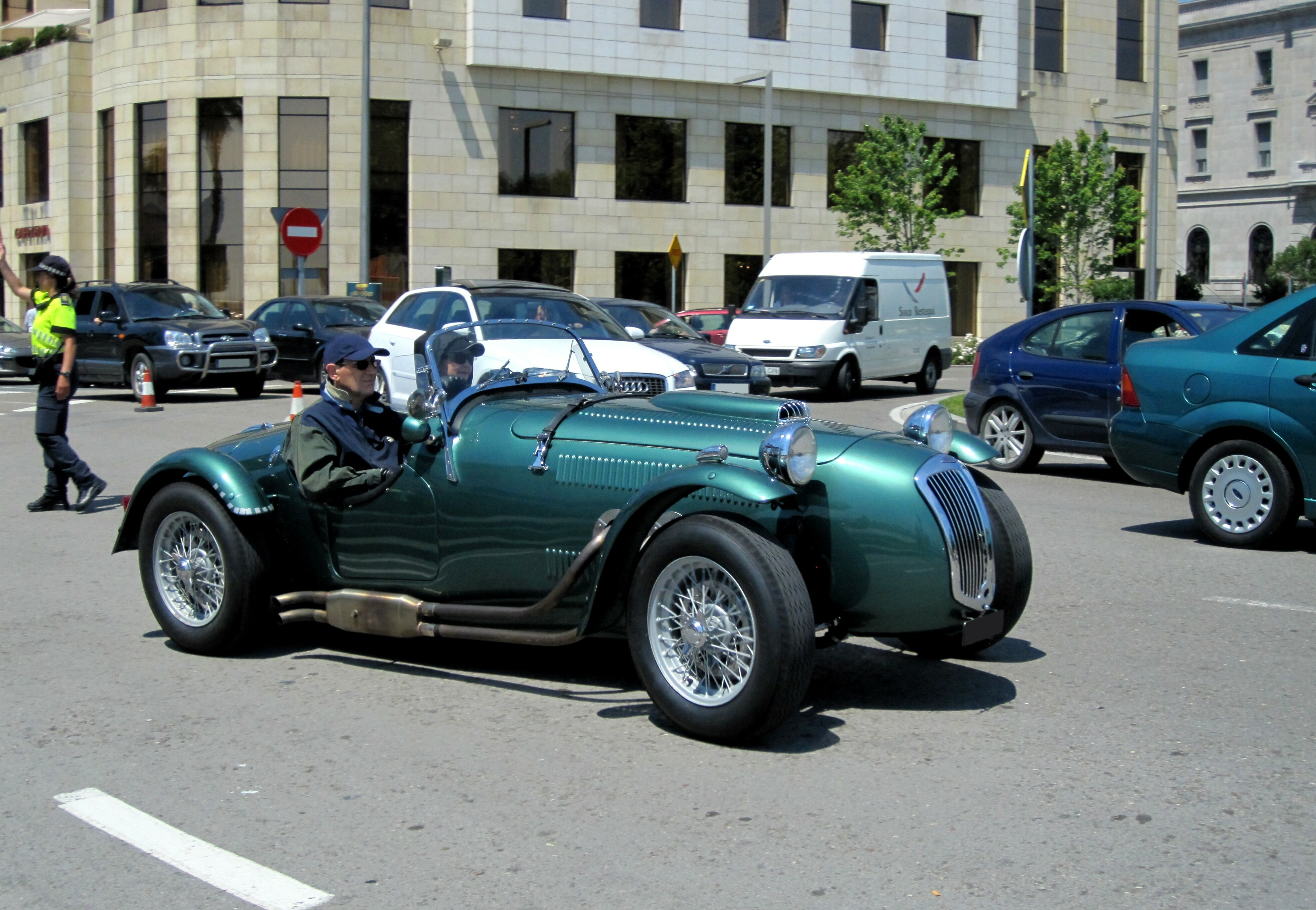 Frazer-Nash Le Mans Replica